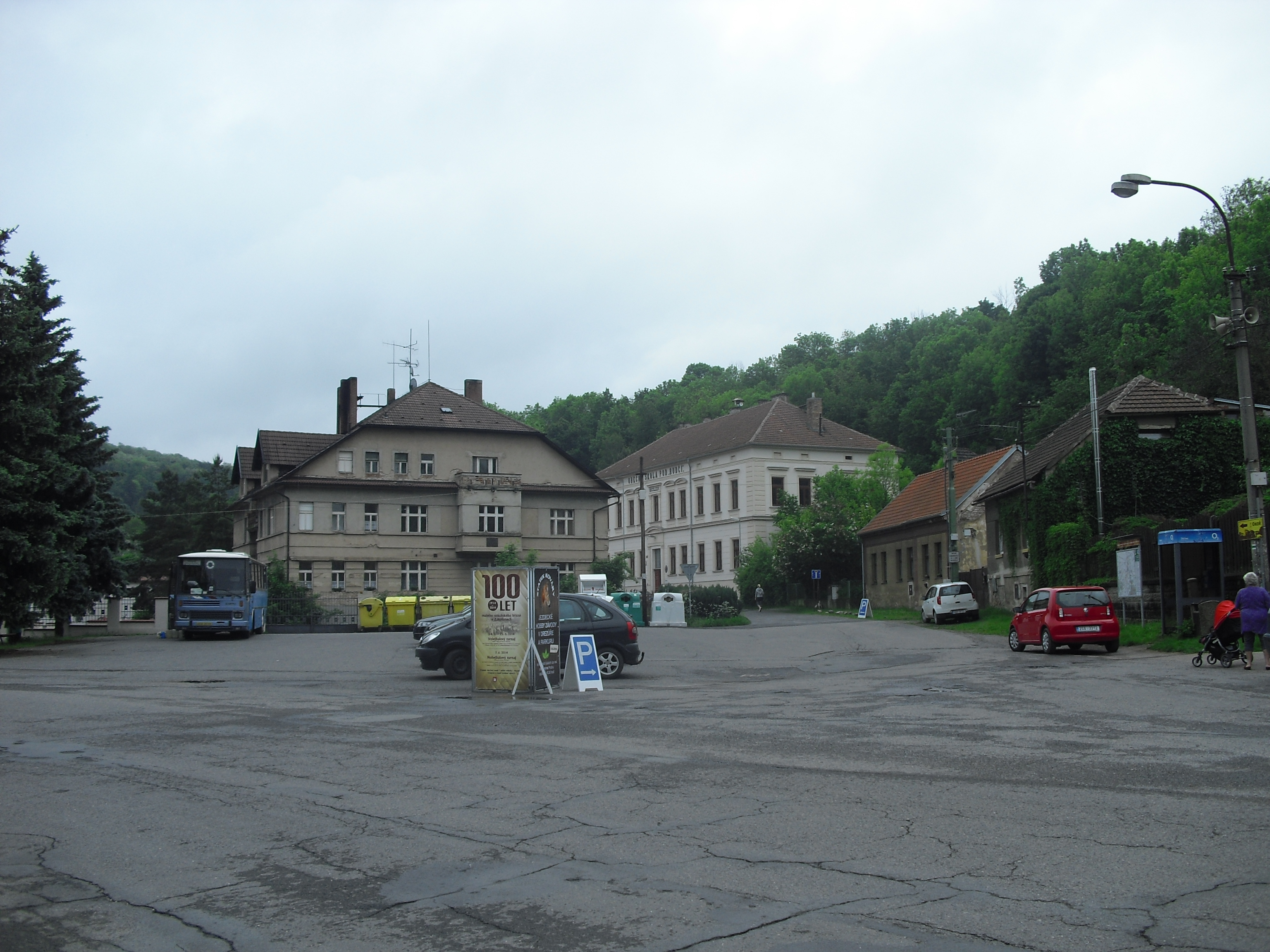 Zákolany, Kladno District, Czech Republic.